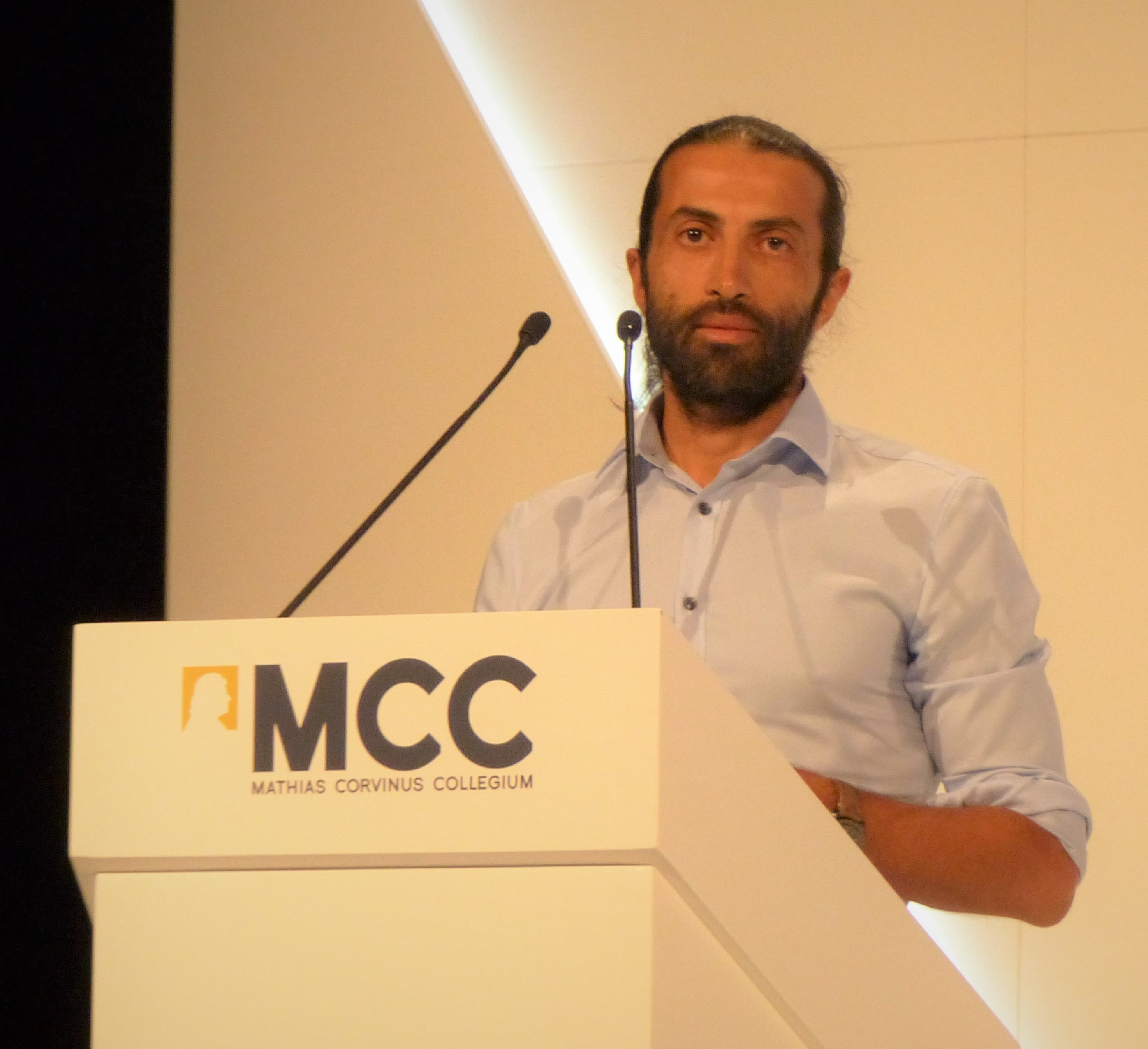 Mosab Hassan Yousef (Arabic: مصعب حسن يوسف; born May 5, 1978). MCC Budapest Summit on Migration. The Biggest Challenge of our Time? On the 24th of March, 2019. Várkert Bazár, Central Europe